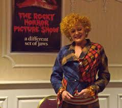 Patricia quinn standing behind the Rocky Horror Picture Show film poster.